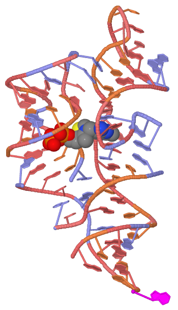 Tertiary structure of the TPP riboswitch. The image was generated by Jmol from the PDB:2hoj structure